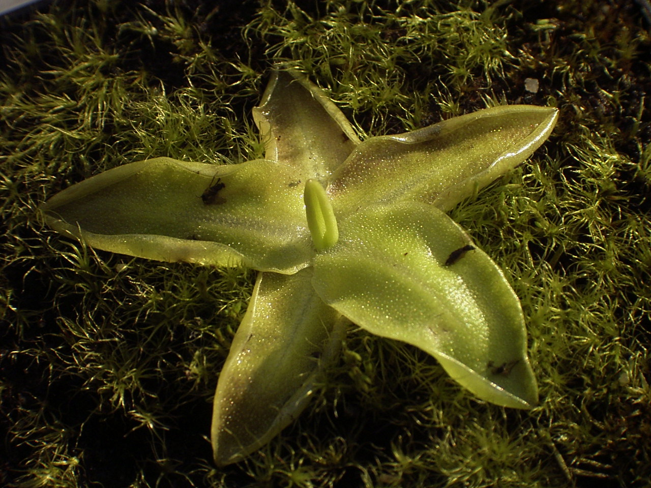 The butterworts are a group of carnivorous plants comprising the genus Pinguicula. Members of this genus use sticky, glandular leaves to lure, trap, and digest insects in order to supplement the poor mineral nutrition they obtain from their environment.